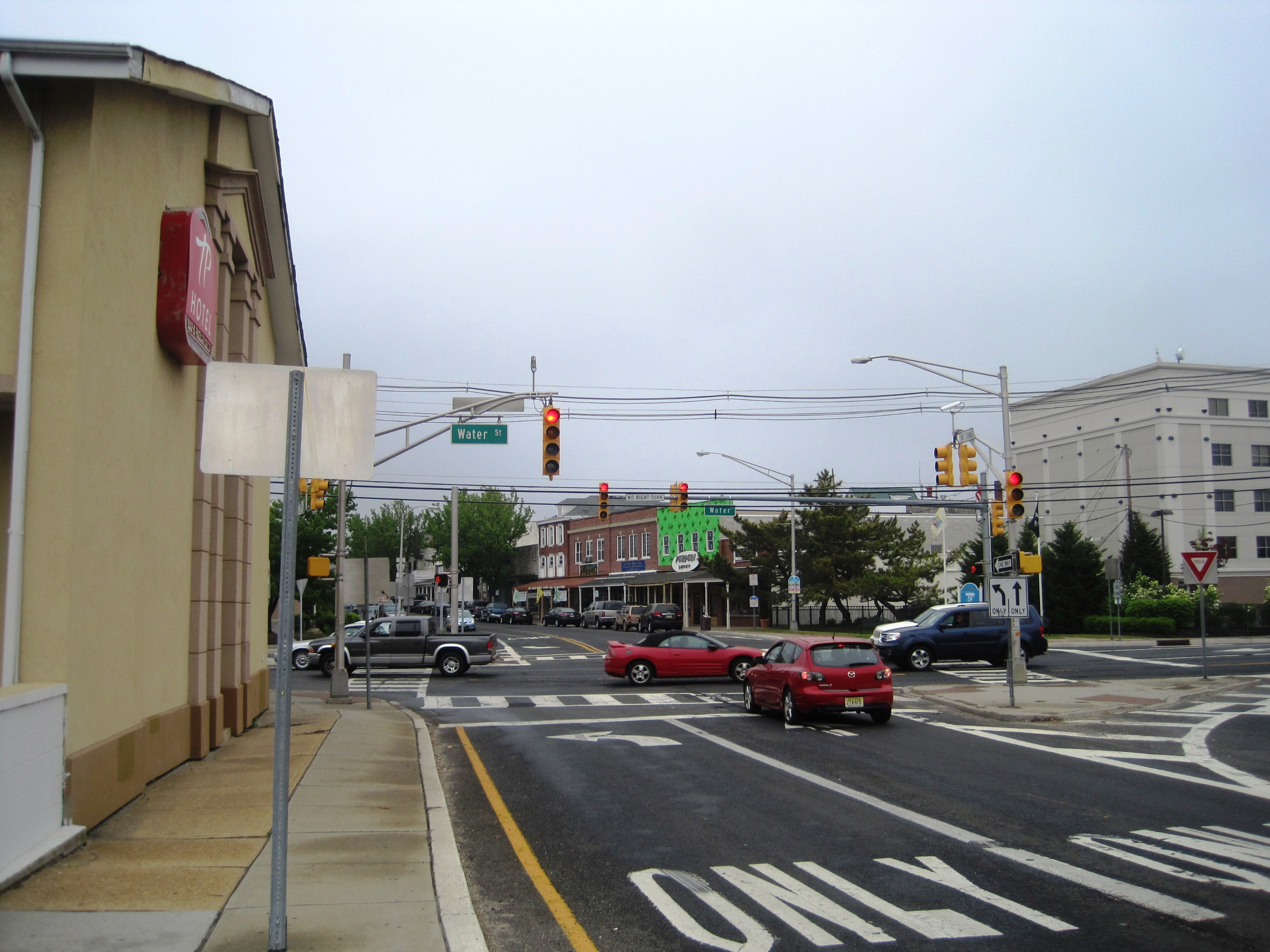 Photo showing downtown Toms River, New Jersey. Photo taken looking north on Main Street (Route 166) with Water Street crossing (County Route 527 to the left, CR 549 to the right).